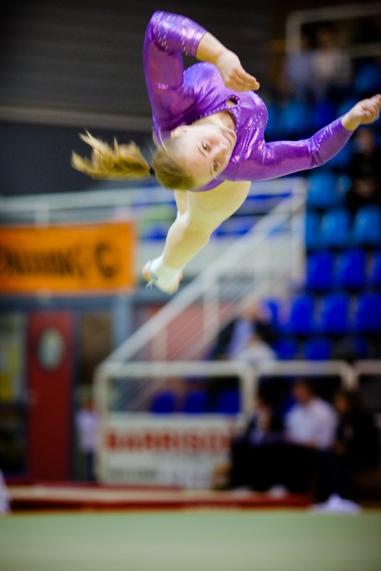 Figure on floor.